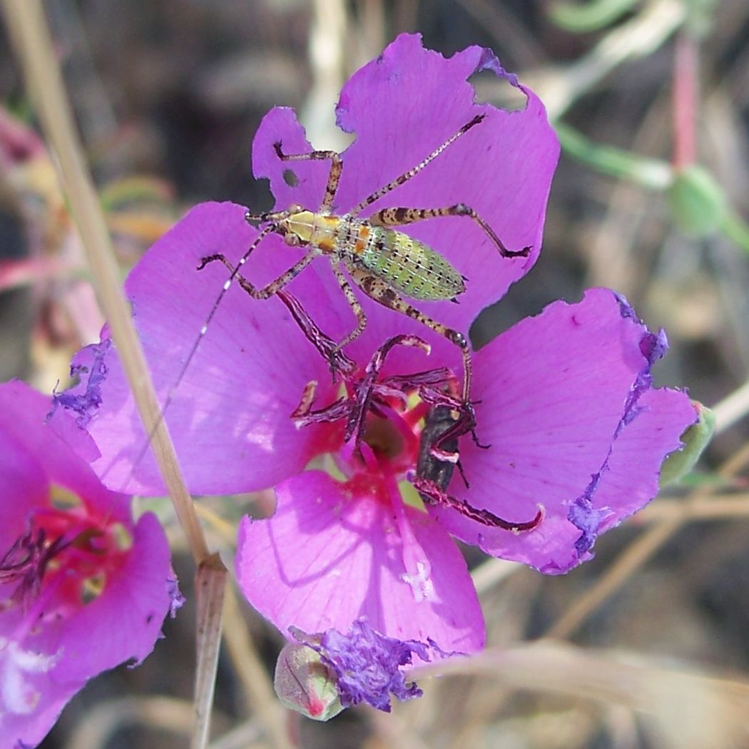 Fork-tailed Bush Katydid nymph. Made in San Jose, California, USA. Identified by Ron Hemberger, john and jane balaban and David J. Ferguson.